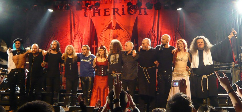 Therion 22/12/07 Elysée Montmatre (Paris) with guest stars. L-R: Snowy Shaw, Peter Karlsson, Johan Niemann, Christofer Johnsson, Thomas Vikstrom, Lori Lewis, Mats Leven, Piotr Wawrzeniuk, Ferdy Doernberg, Kristian Niemann, Arien (belly dancer), Messiah Marcolin.